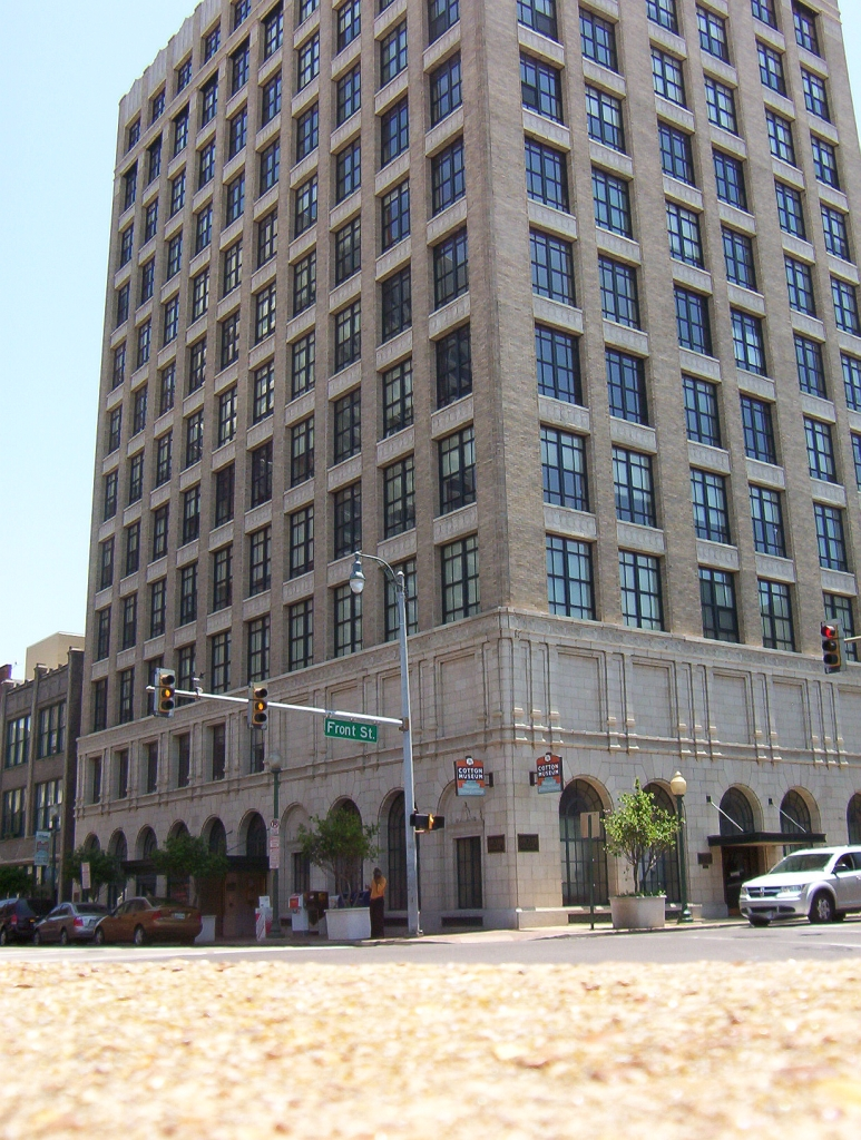 The Cotton Museum in Memphis, Tennessee